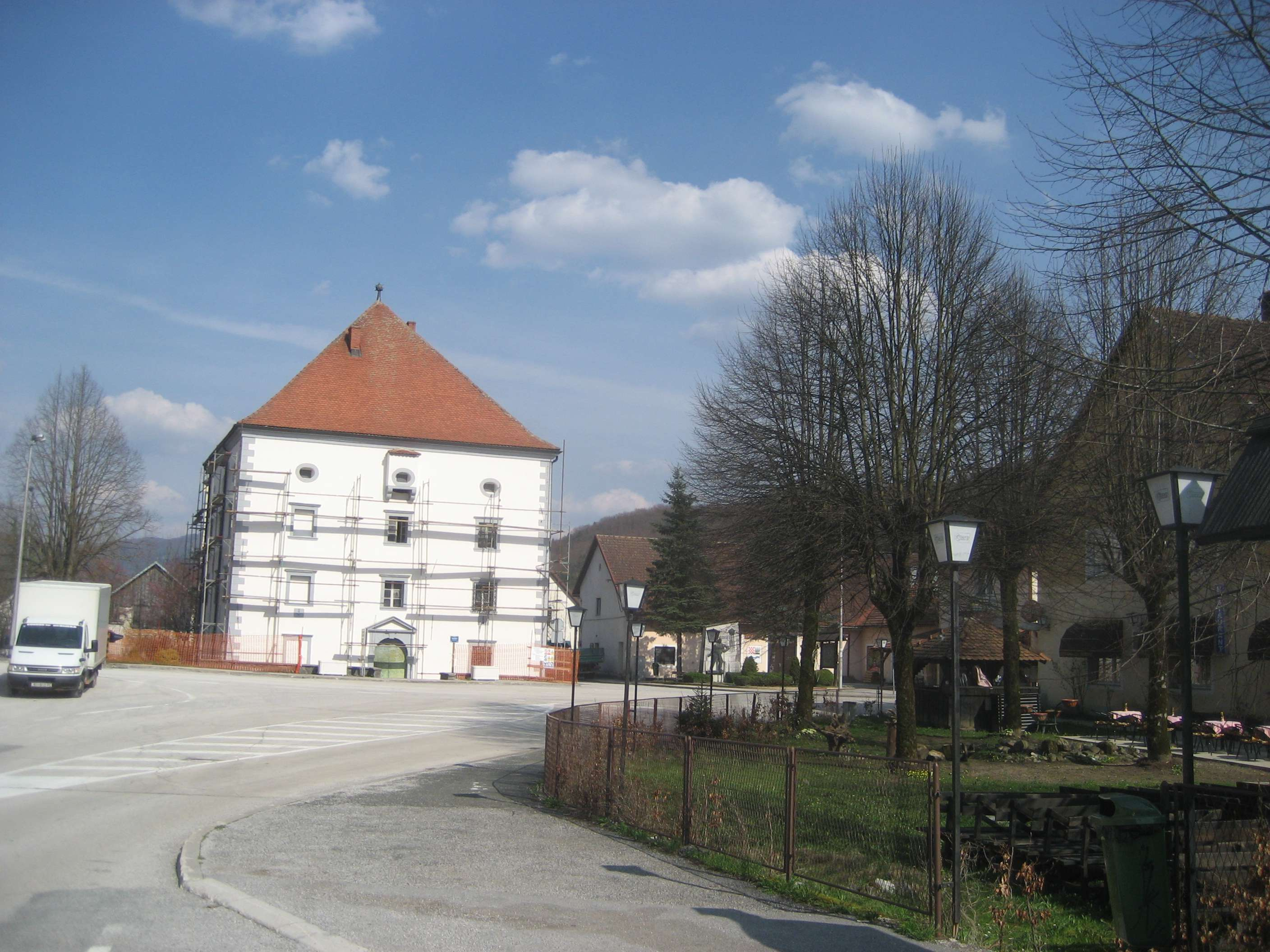 Zrinski Castle in Brod na Kupi, Croatia